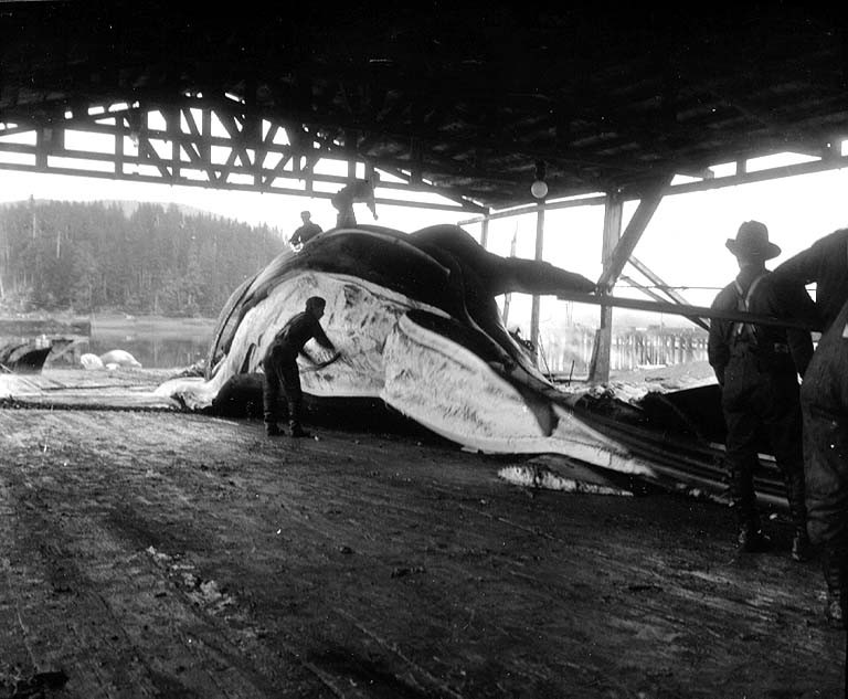 From John Cobb field notebook: Tearing strips of blubber off the whale. Aug 25, 1910 Subjects (LCTGM): Dead animals--Alaska--Tyee Subjects (LCSH): Whaling--Alaska--Tyee; Tyee Company